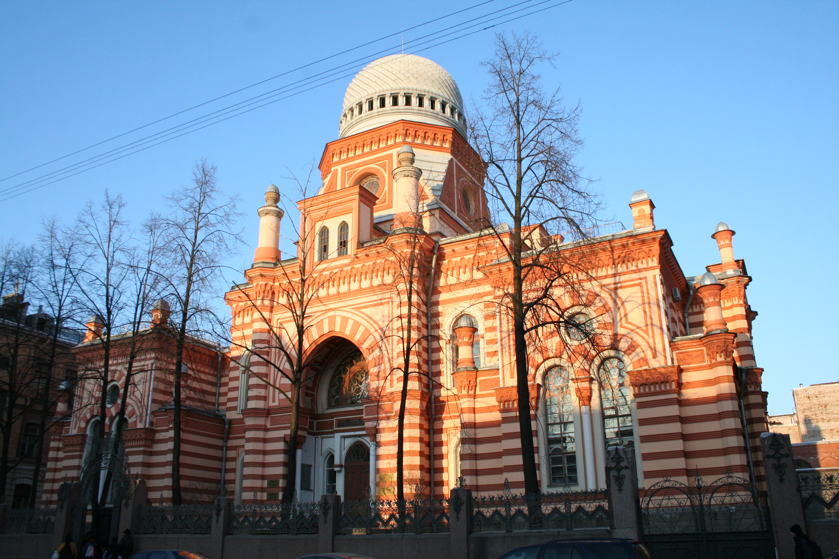 Large Choral Synanogue in St. Petersburg